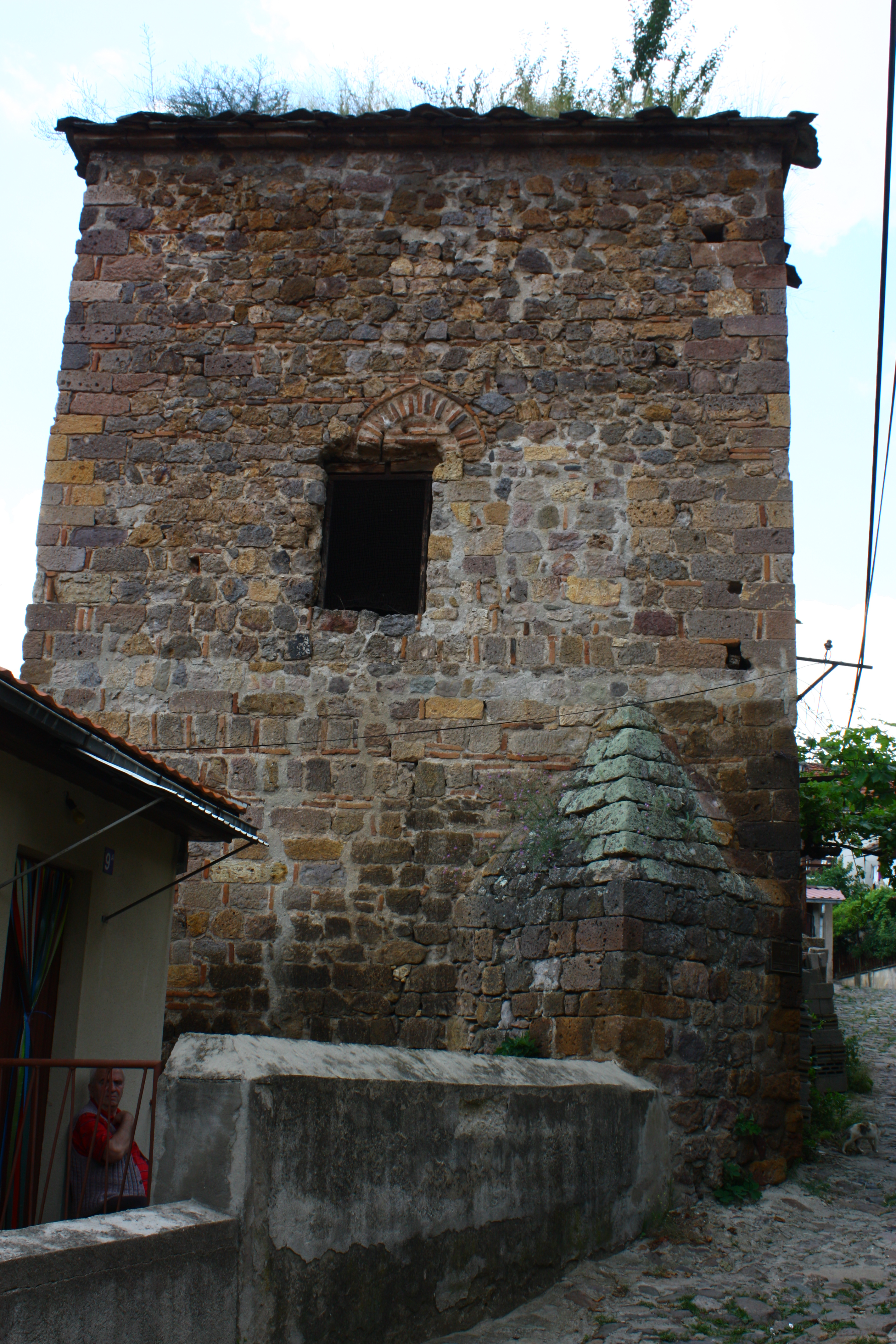 Kratovo, Macedonia